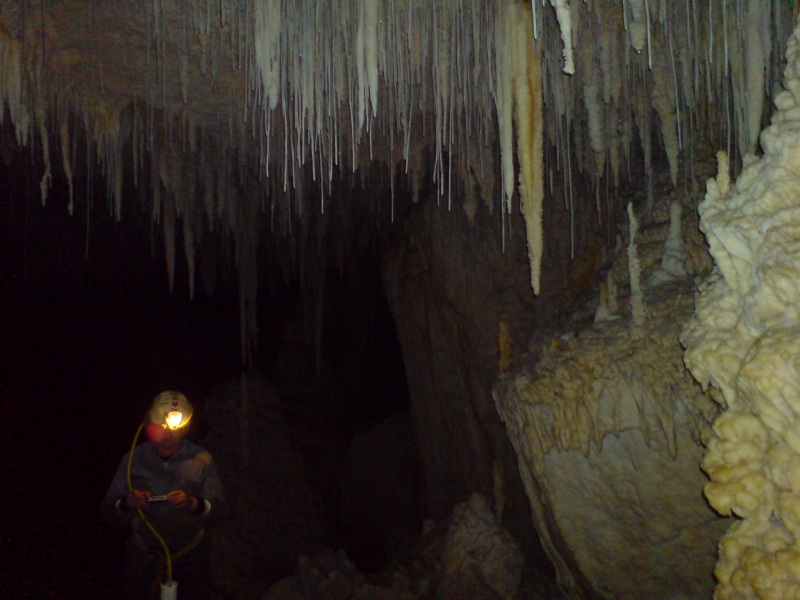 A caver in Hollow Hill cave, near Waitomo Caves village in New Zealand. Note the old-school carbide lamp and reservoir.